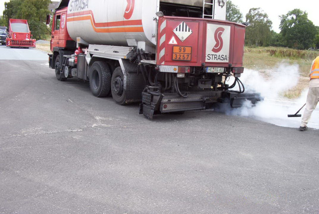 Spreading of binder for surface dressing. Shot from Peine, Germany.